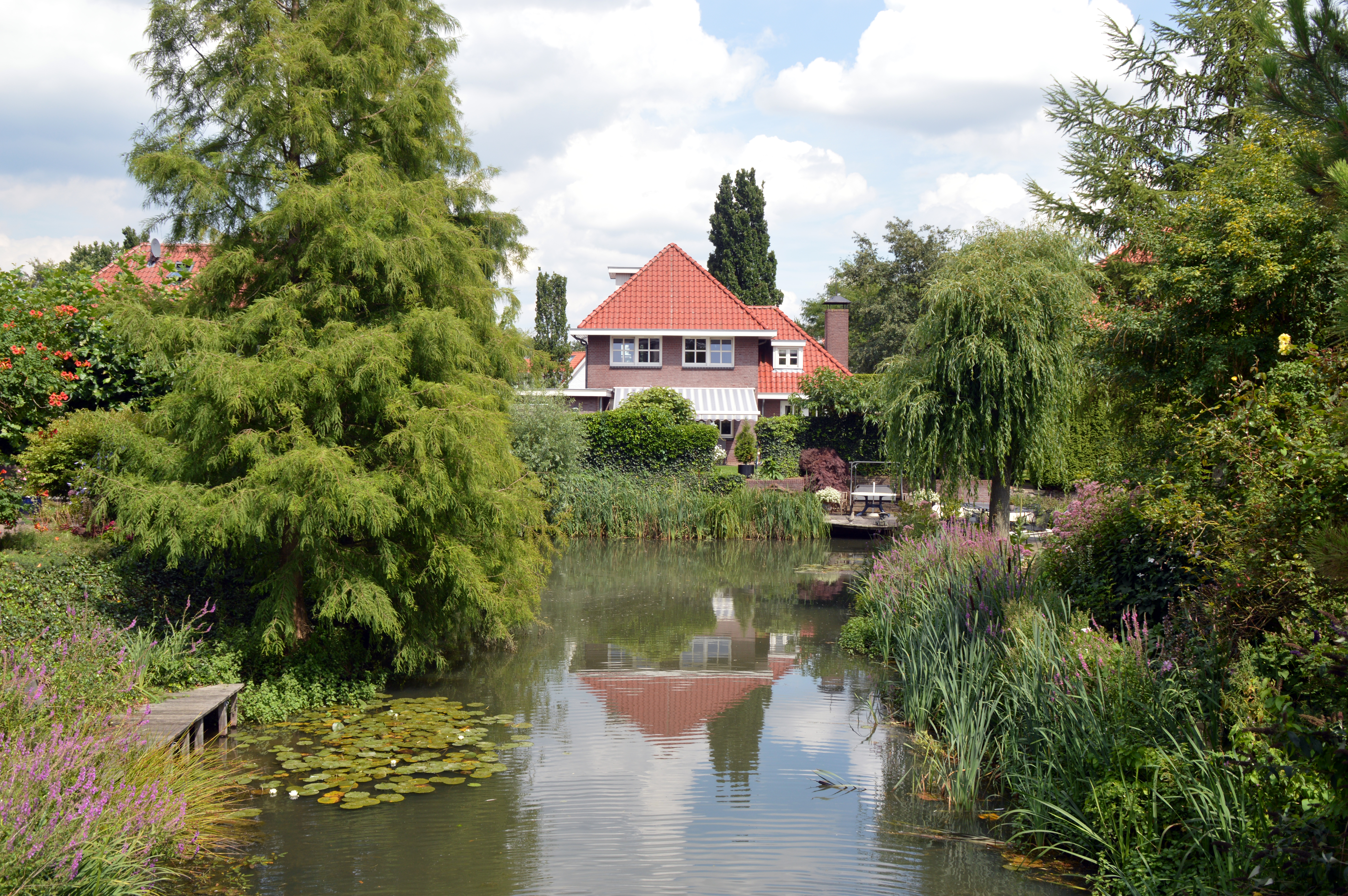 View of Eikenpark from the Wolfbossingel, Beuningen, Gelderland. Rijk van Nijmegen